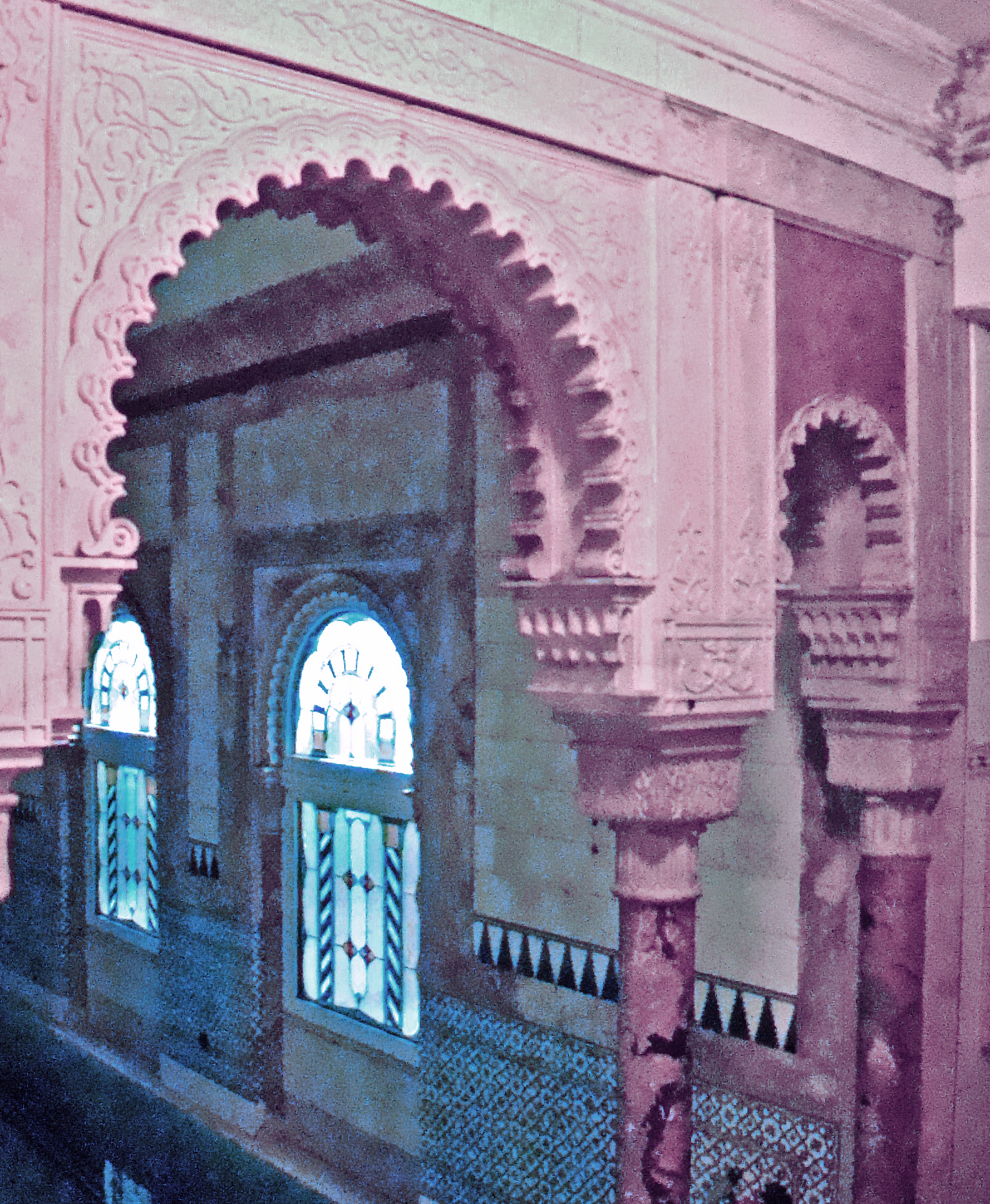 Architectural detail in the Central Bathhouse Vienna designed by the Czada brothers in the Moorish Revival styles